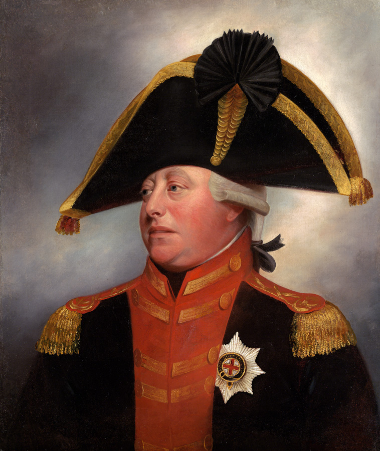 George III of the United Kingdom